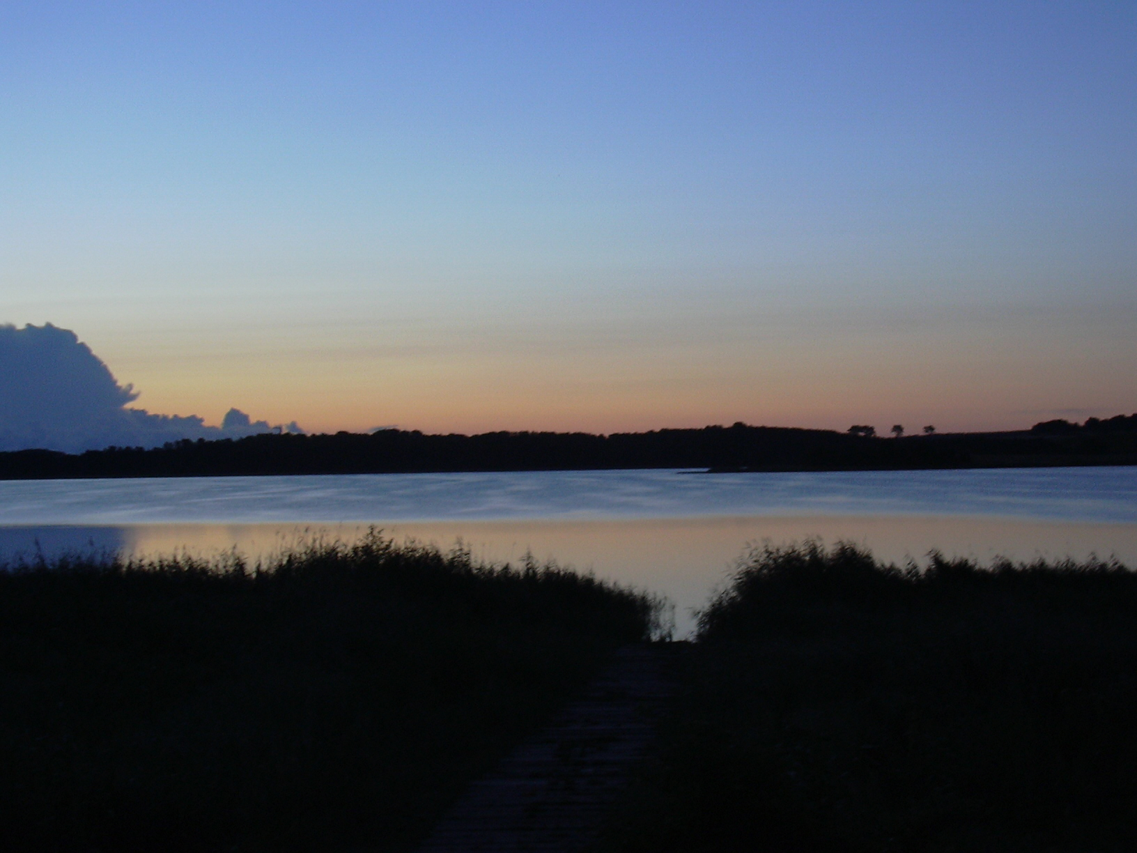 Sunrise at Achterwasser, island of Usedom, Germany.